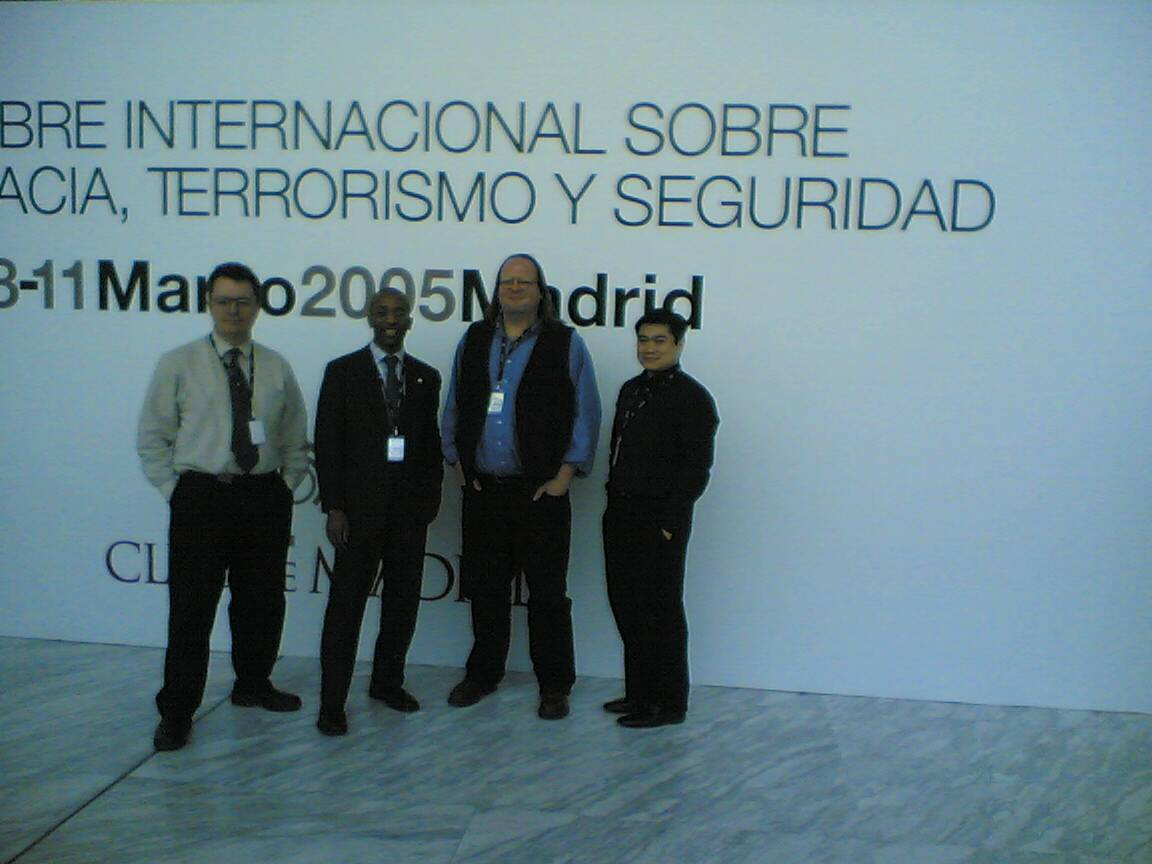 group photo Left to right: Paul Vixie, Ejovi Nuwere, Ethan Zuckerman, me International Summit on Democracy, Terrorism and Security